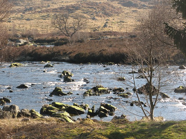 River Gaur Complete with partly wooded island. A major drain of Rannoch Moor.